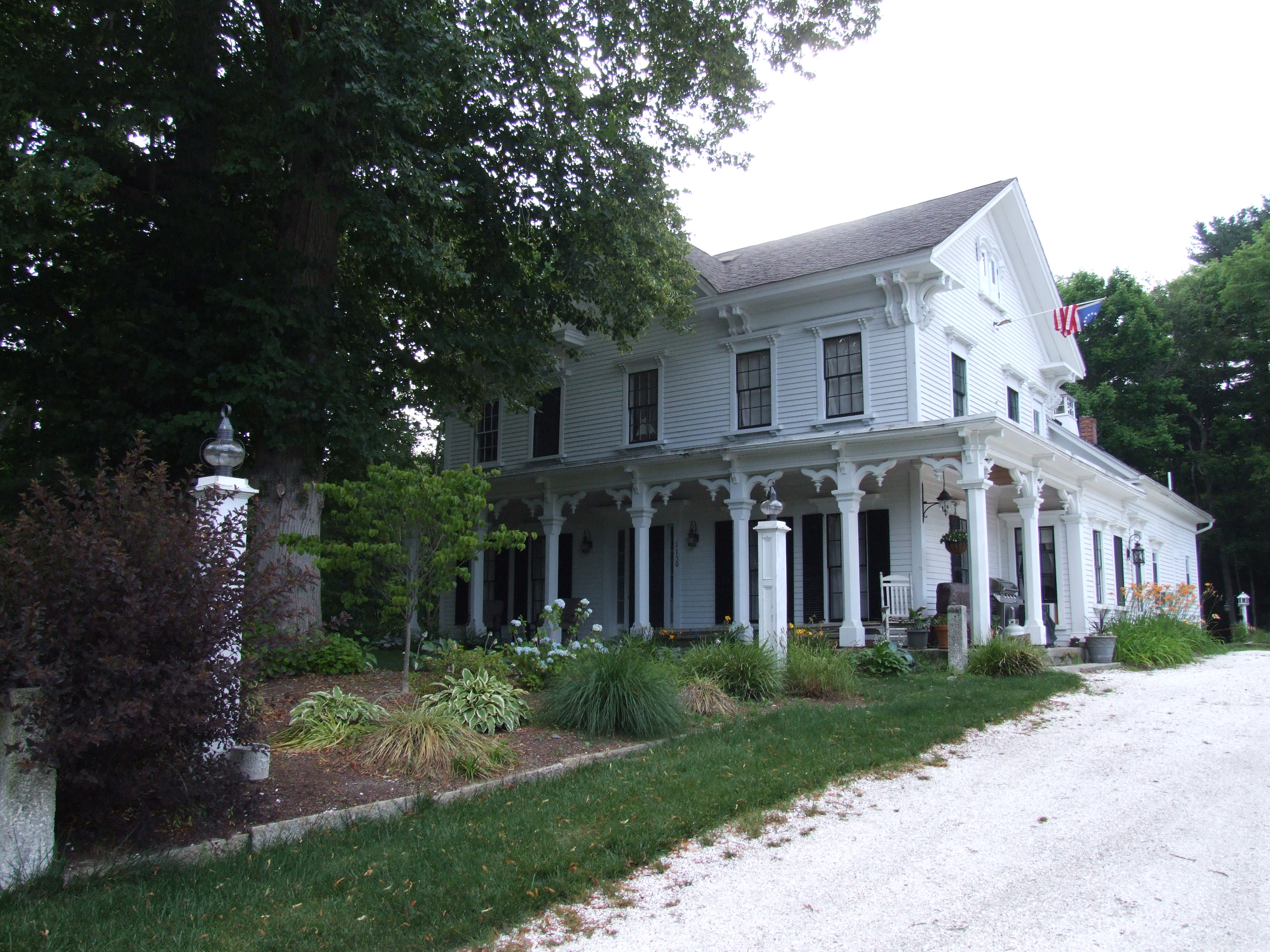 Spring photograph of The N. S. Williams House from the east side of the property. Picture highlights the Italianate Corbels and porch brackets.